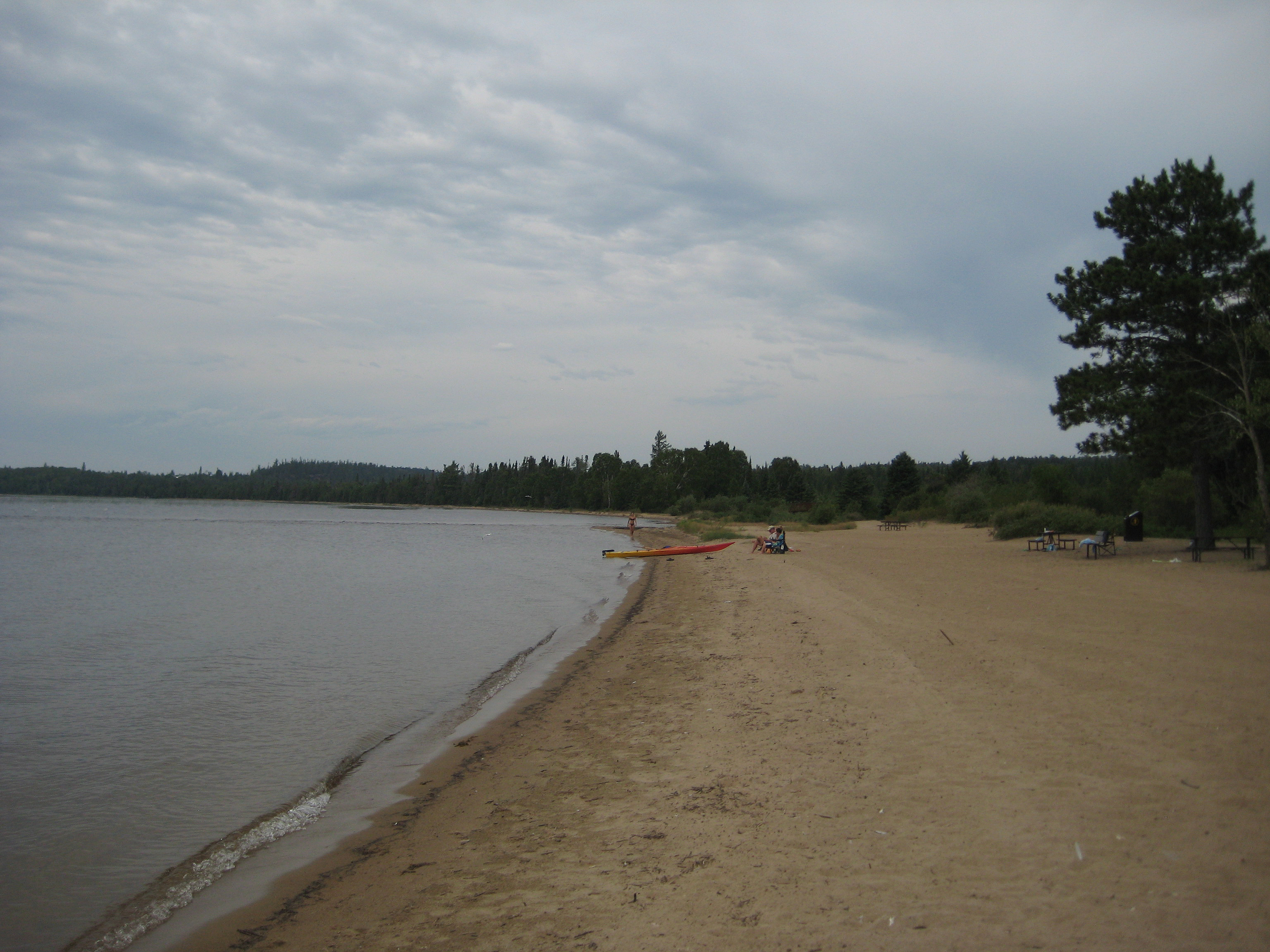 Sandbar Lake Provincial Park, near Ignace, Ontario, Canada.